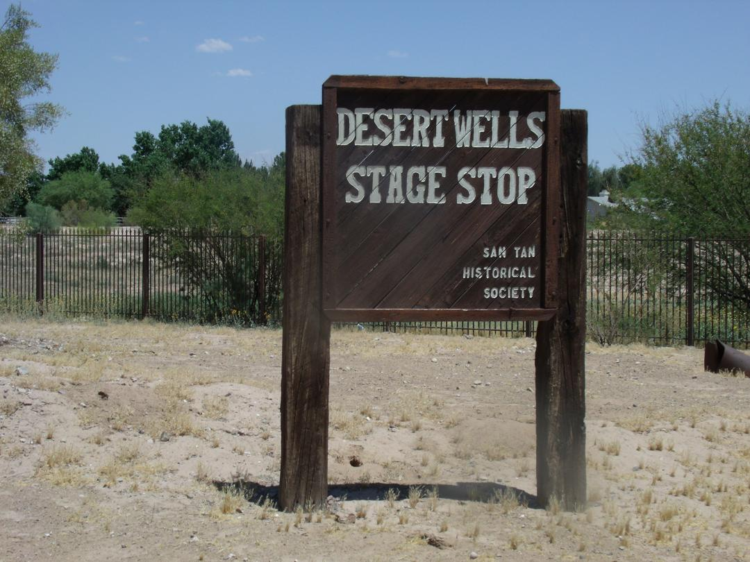 The Desert Wells Stage Stop Marker in Queen Creek, Arizona. The location is listed as historical by the San Tan Historical Society of Queen Creek. Located just north of Chandler Heights Road on the east side of Sossaman Road, this site was a small spur stop for the Arizona Stage Company, founded in 1868.